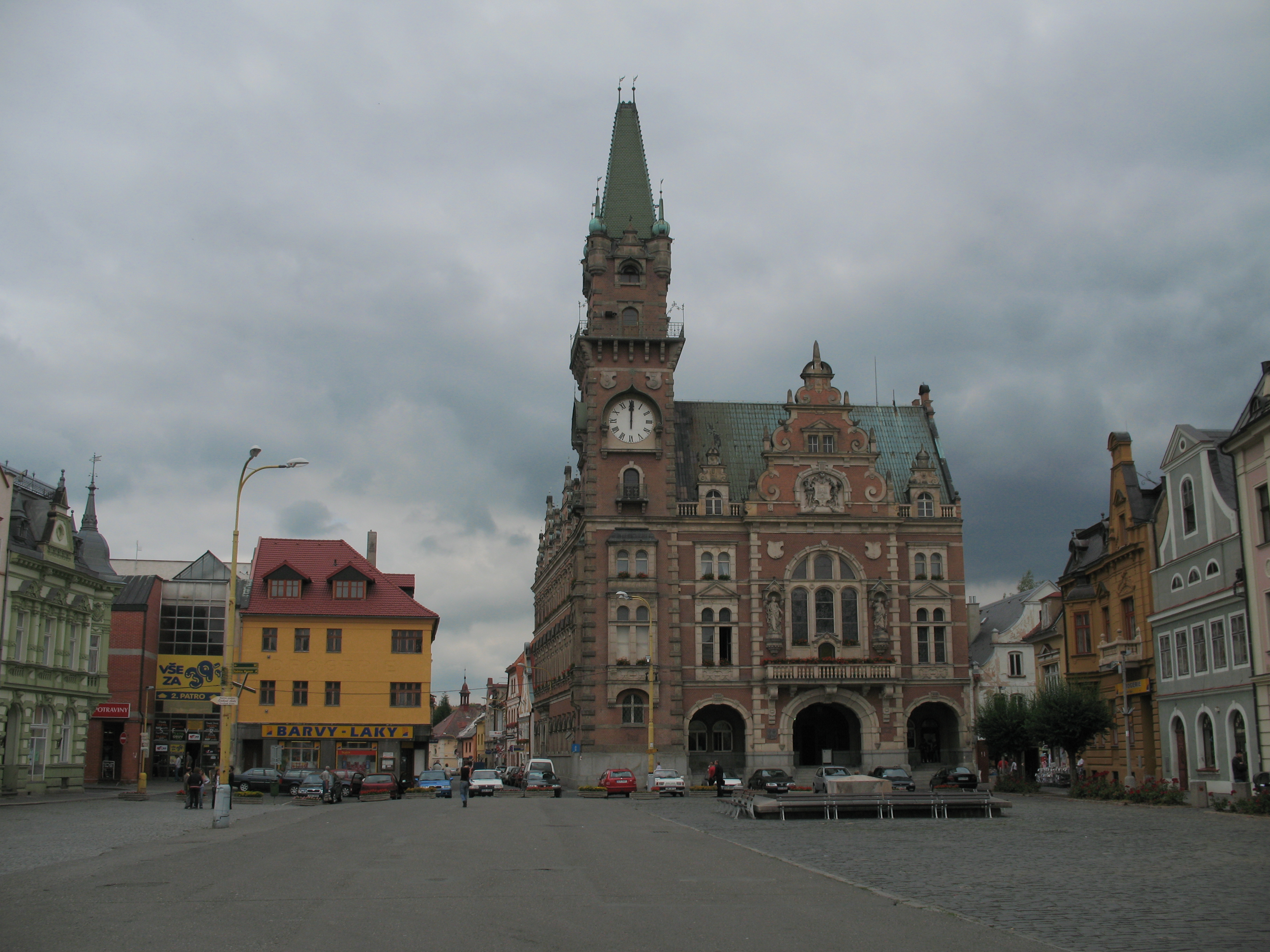 the city centre in Frydlant, Czech Republic